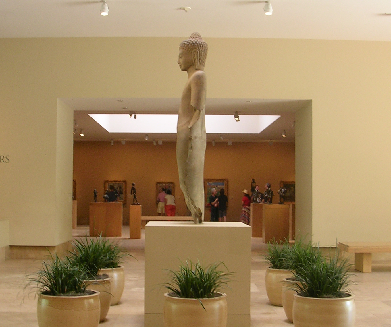 Entrance hall of the Norton Simon Museum in Pasadena, California. Taken by user:Clayoquot in 2006.